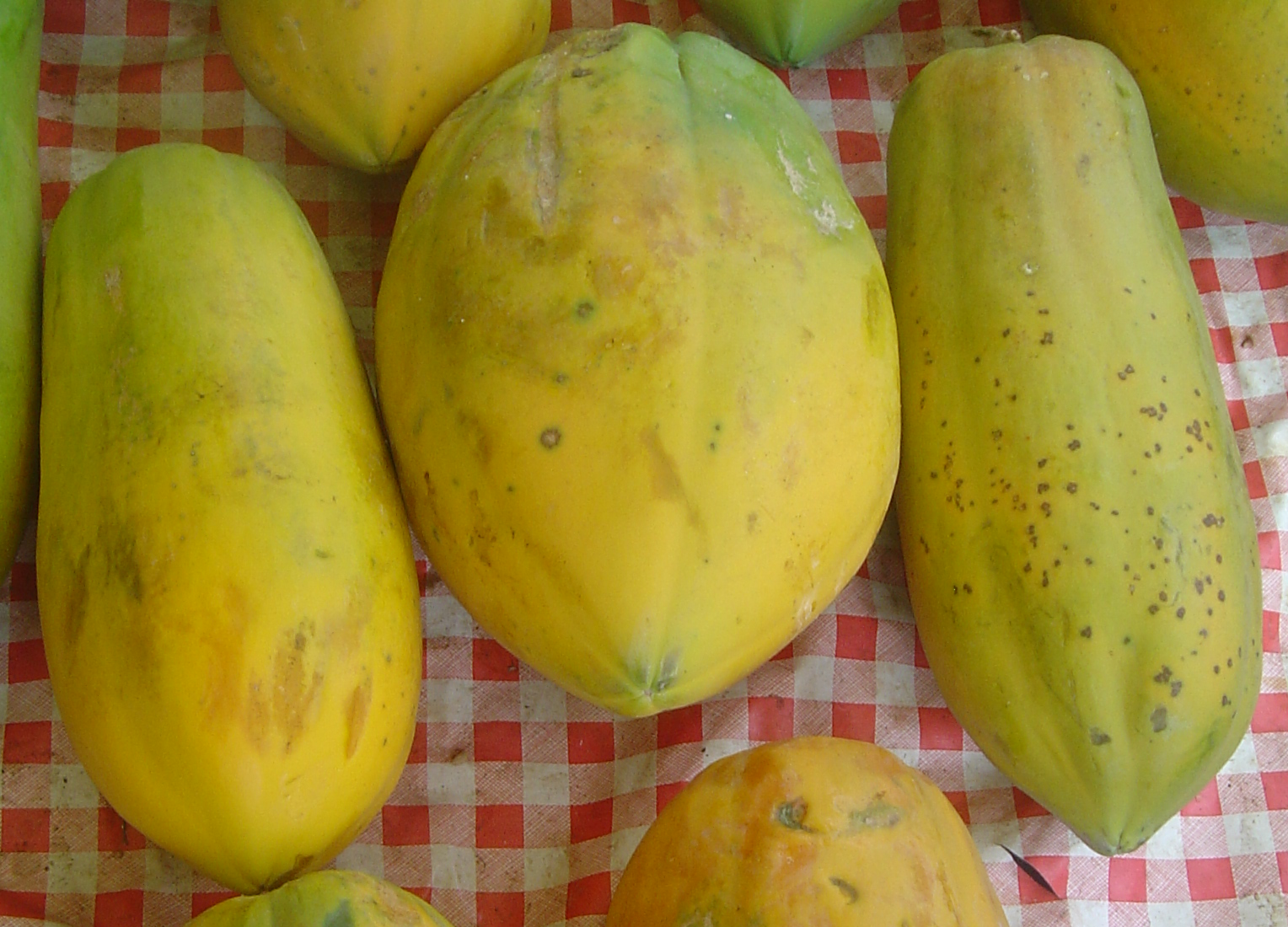 Fruits of Carica papaya on sale in Réunion Island